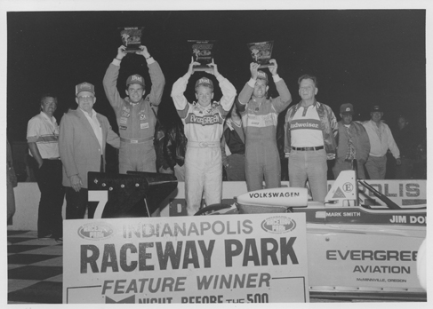 In 1989 Mark Smith won The Night Before the 500 at Indianapolis Raceway Park as his brother Mike did the year before. Both Super Vee victories were achieved driving for Ralt of America (Owner: Brian Robertson, Crew Chief: Dave McMillan). At the 1989 race Mark set a qualifying record when he lapped IRP's 0.686 mile oval at 126.122 mph( 19.581seconds). As of 2011 Mark's lap record still stands. From left to right: Robbie Groff, Mark Smith, John Brooks.